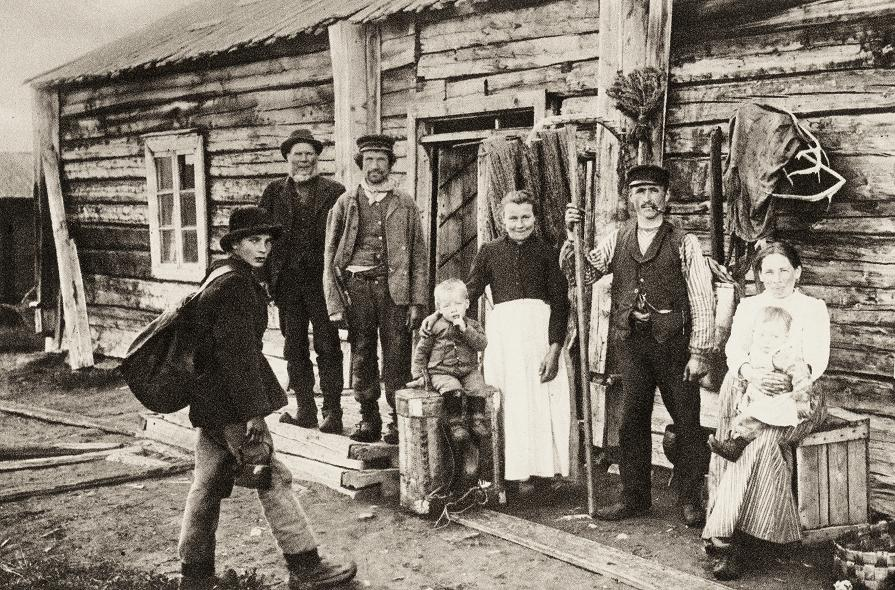 Finn Kvens, Kvener, Tornedalinger in Kurravare, Northern Sweden. The Kveen people settled there have for the most kept their Finnish language. Other names: Kveenit, Kveeni, Tornedaling, Finlanders, Finnish people. Sverige, Finland, Kvener, Kven.